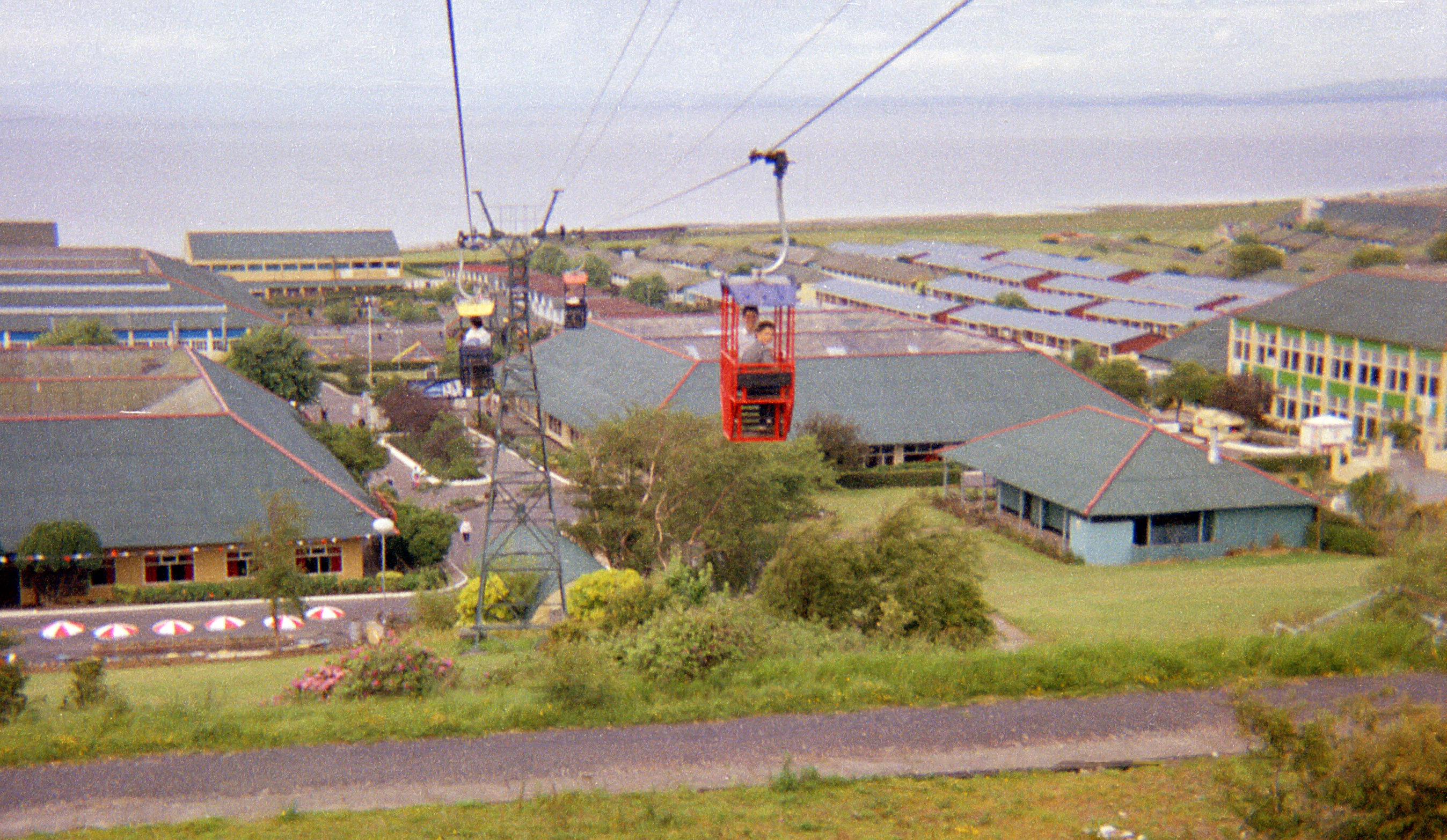 Overhead view of Butlins holiday camp in Ayr, Scotland, 1985. (Later known as "Wonderwest World").